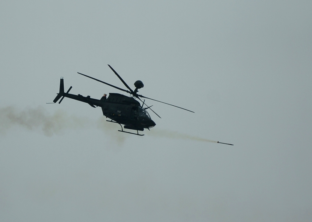 An OH-58 Kiowa observation helicopter fires a Hydra 70 rocket in an attempt to destroy an improvised explosive device during Operation Browning in southern Arab Jabour Jan. 22 (Original caption)